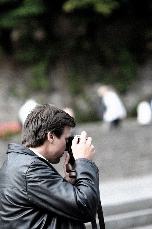 Photographer Oliver Weber at Work, September 2012, Photokina 2012, Cologne